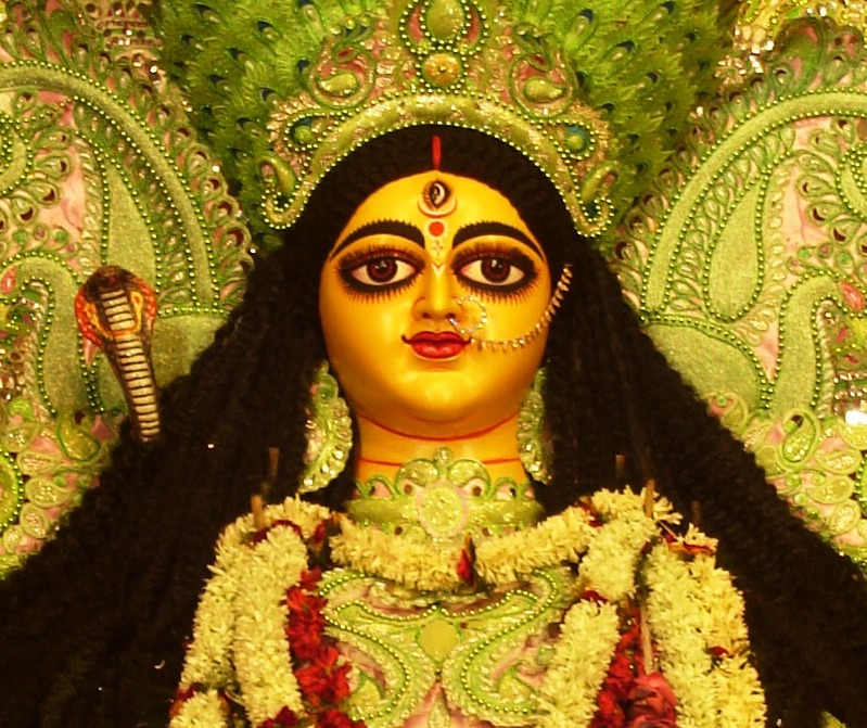 Jagaddhatri with her Naagyagnopabeet, at a pandal in Central Kolkata